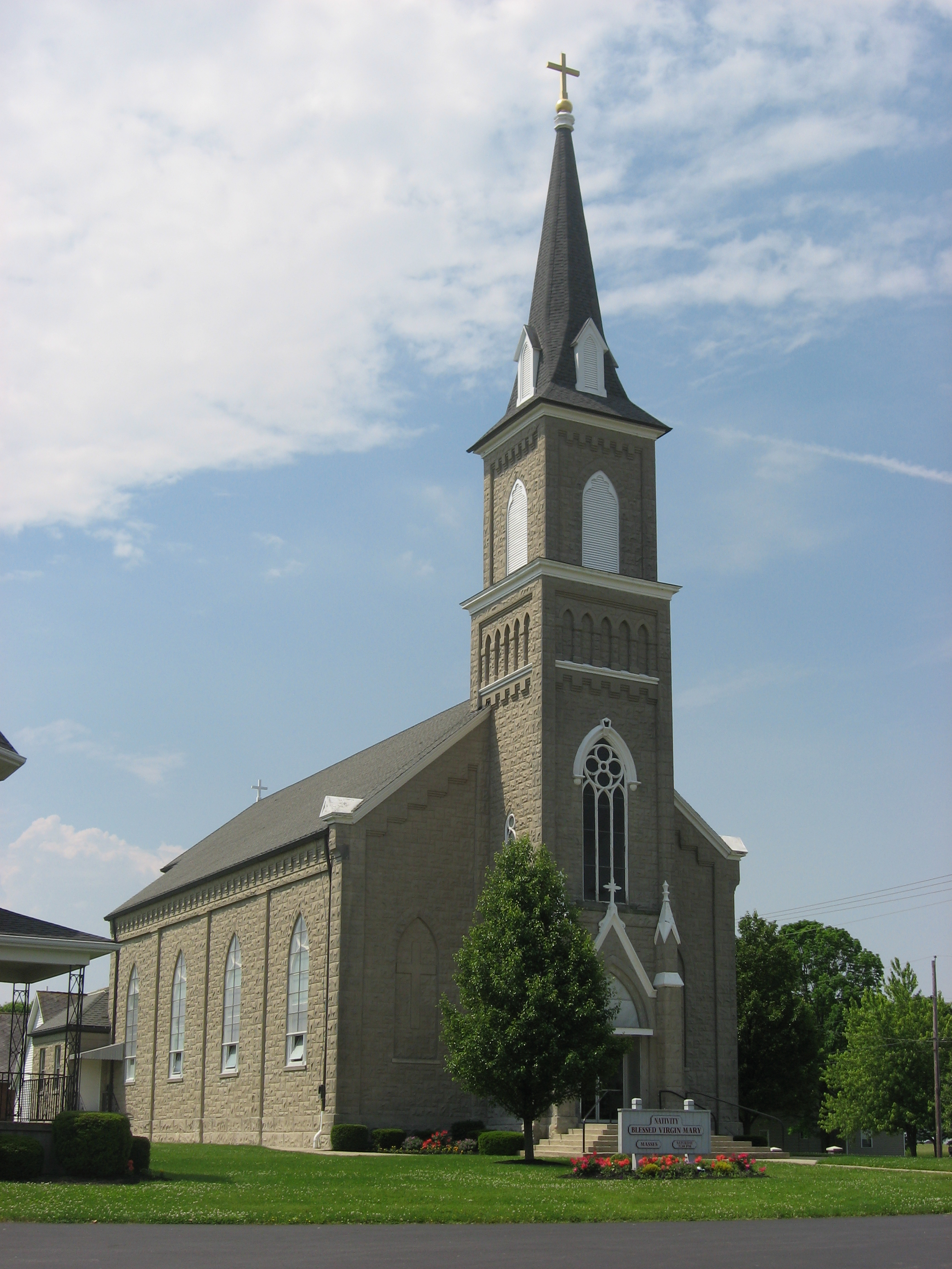 Front and eastern side of Nativity of the Blessed Virgin Mary Roman Catholic Church, located along State Route 119 in Cassella, an unincorporated community in Marion Township, Mercer County, Ohio, United States. Built in 1858, the church and its rectory were listed together on the National Register of Historic Places as a part of the Cross-Tipped Churches of Ohio Thematic Resources.